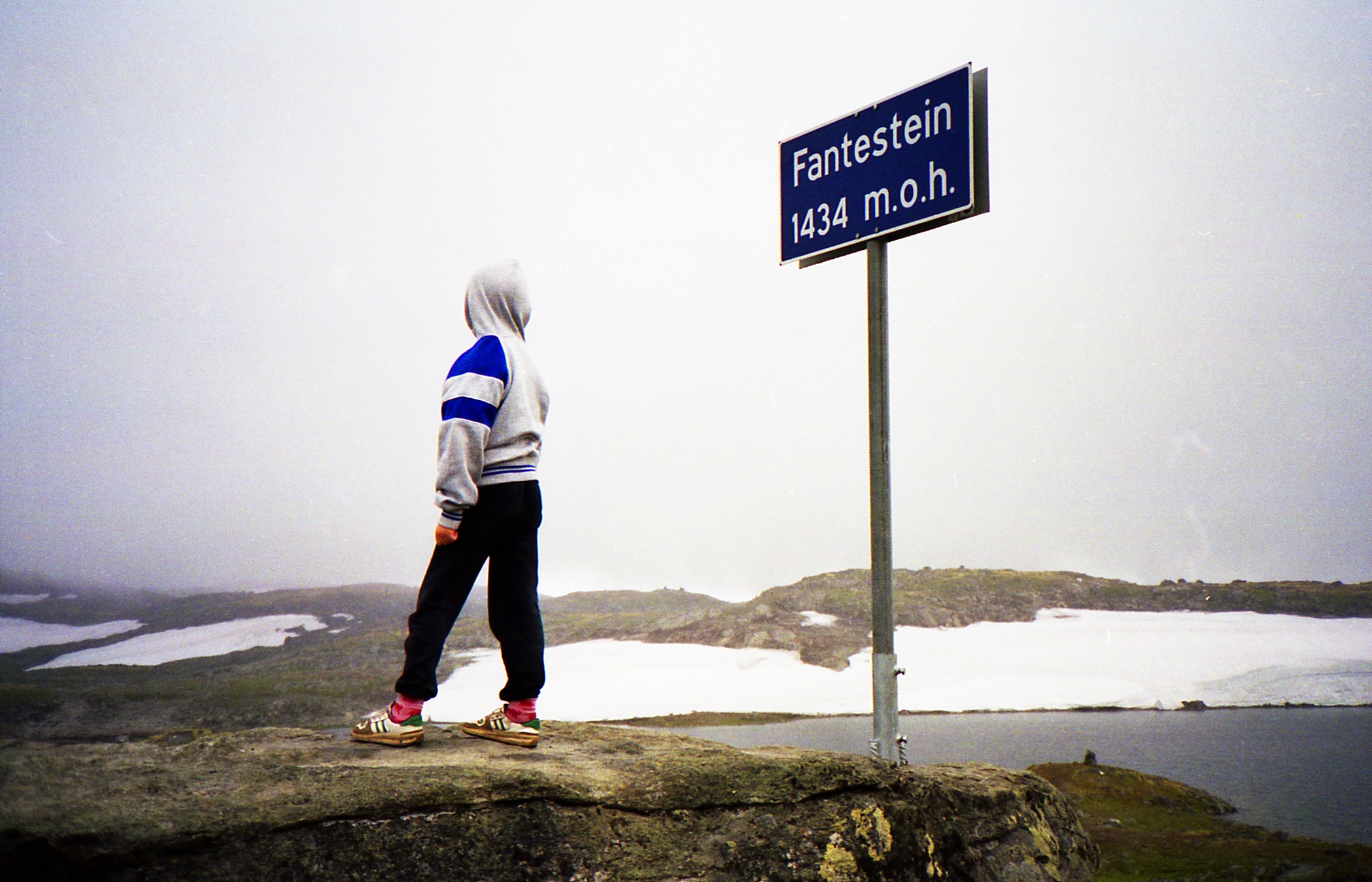 Fantesteinen pass, 1434 m above sea